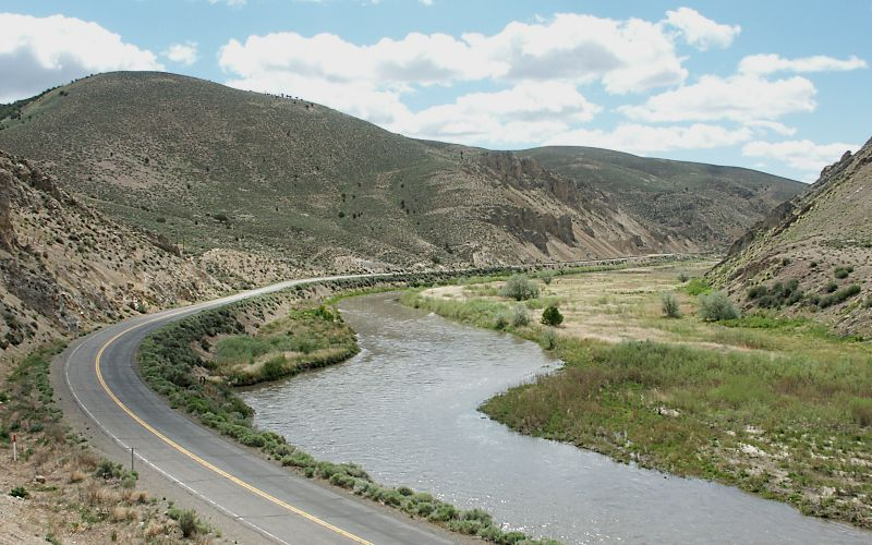 The Humboldt River, looking southeast in Carlin Canyon.